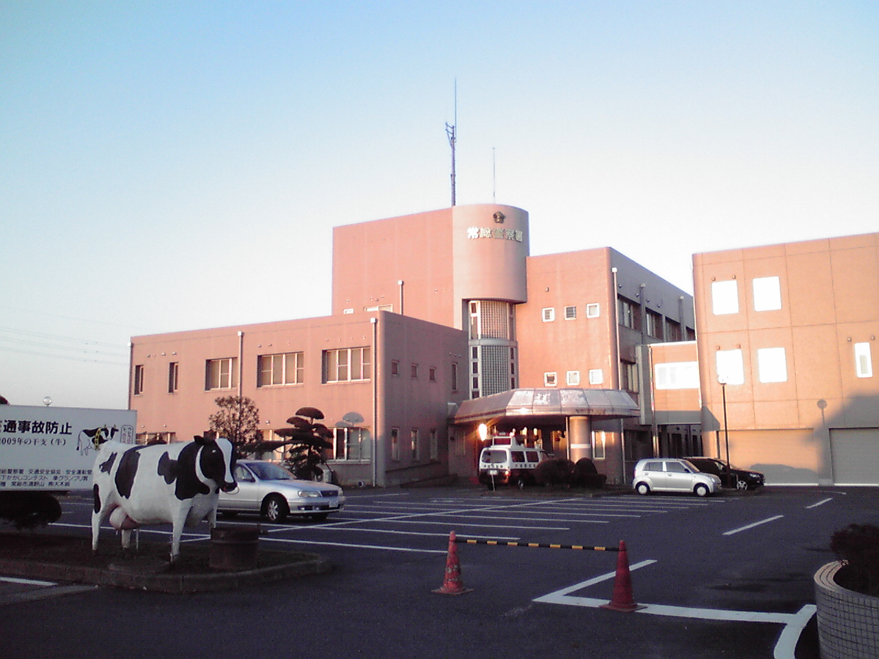 This is a police station in Ibaraki, Japan.